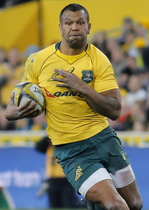 2017.08.19.21.16.54-Kurtley Beale run-0002 2017 Rugby Championship, Bledisloe 1, Australia vs New Zealand, 19th August, ANZ Stadium, Sydney